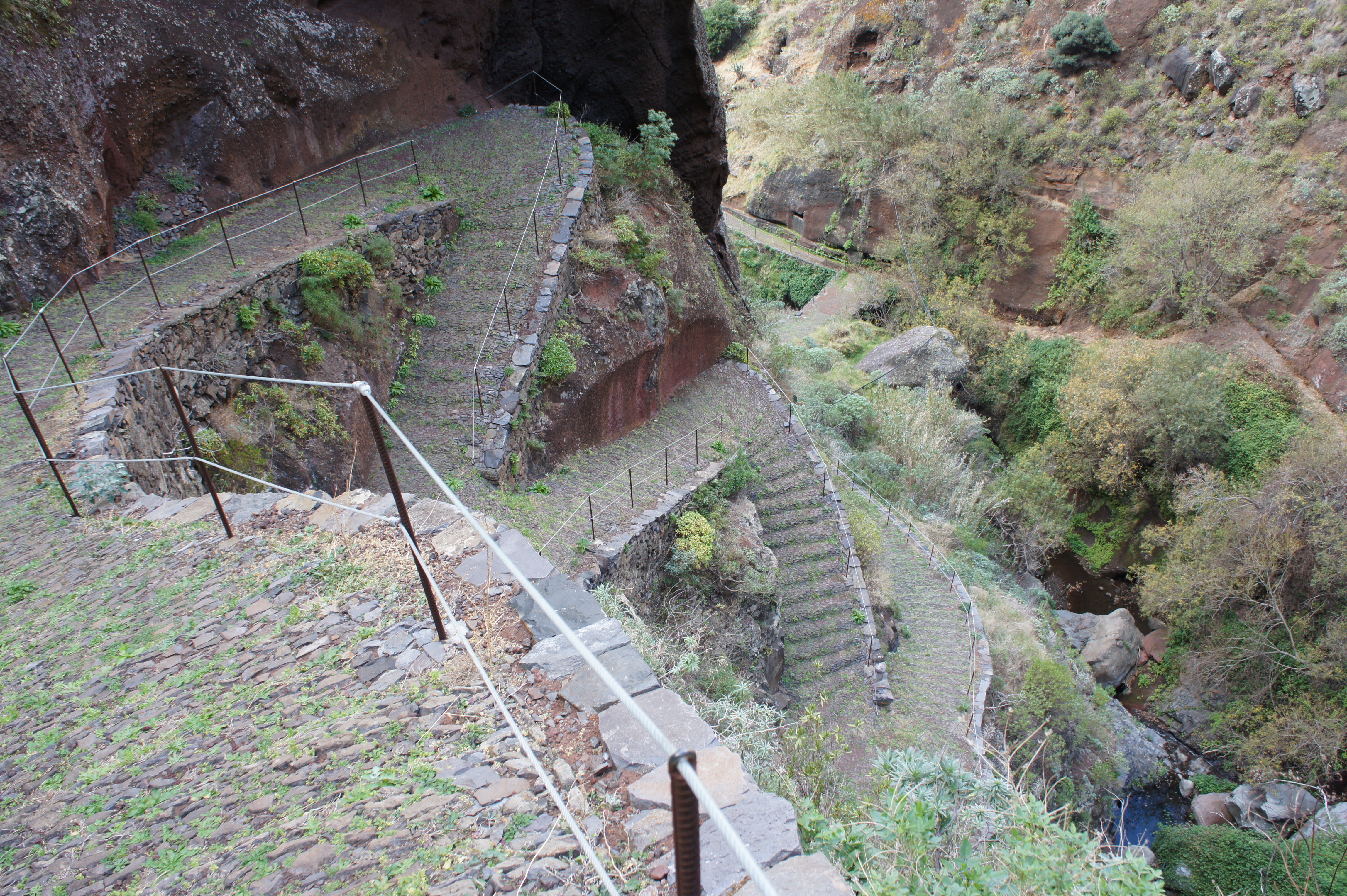 Caminho Real do Paul do Mar.